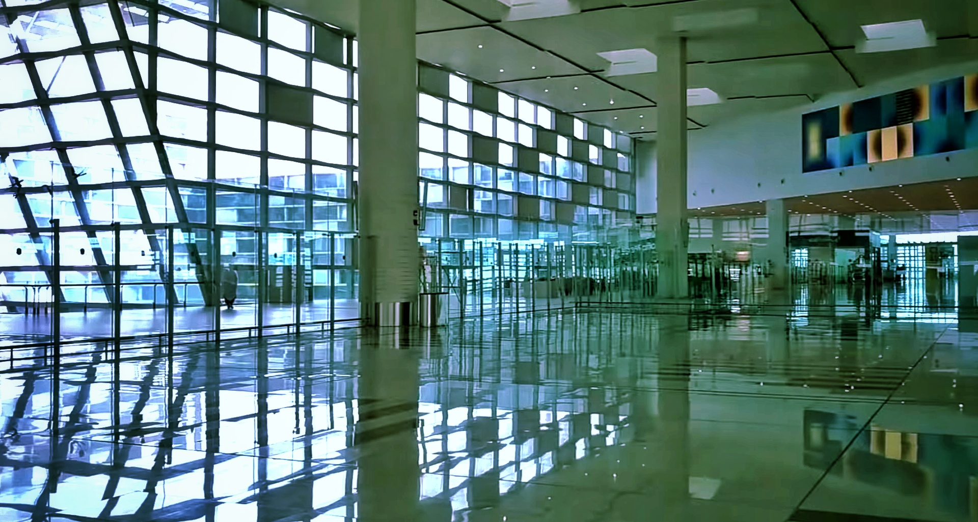 Photo of the departure section in Islamabad Airport